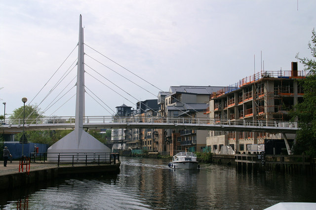 Novi Sad Bridge View downstream.